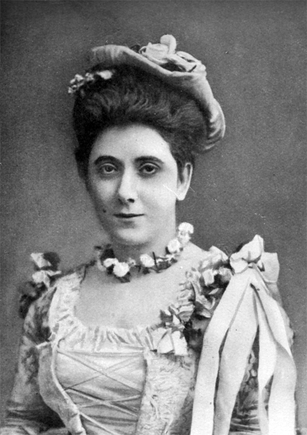 Photograph of Leonora Braham by Elliot & Fry, scanned from the 1914 edition of Cellier & Bridgeman's Gilbert and Sullivan and Their Operas.